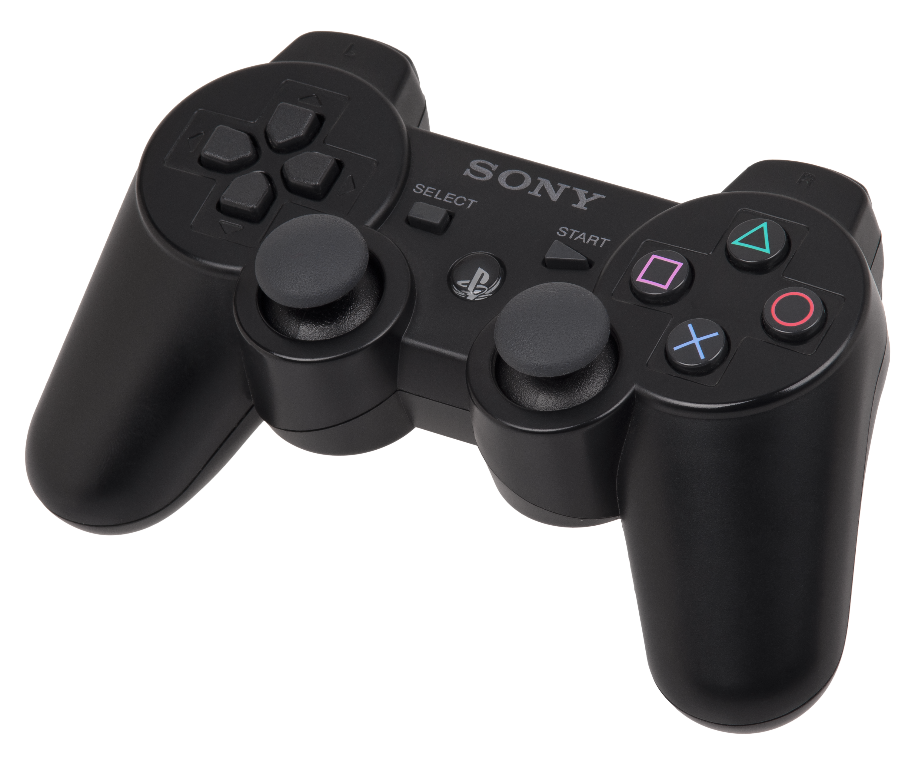 A Sony PlayStation 3 DualShock 3 wireless controller.